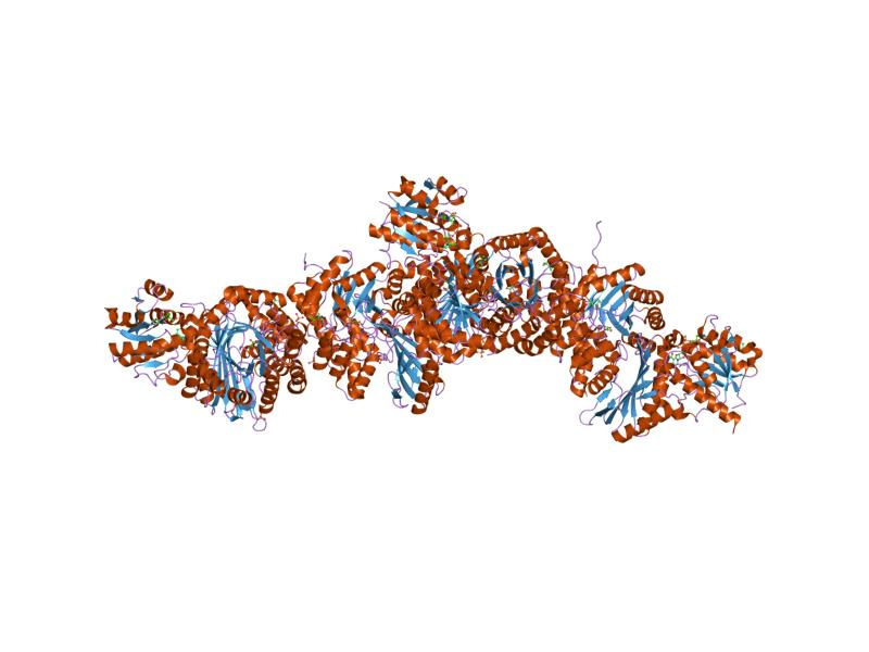 Cartoon representation of the molecular structure of protein registered with 1nvm code.